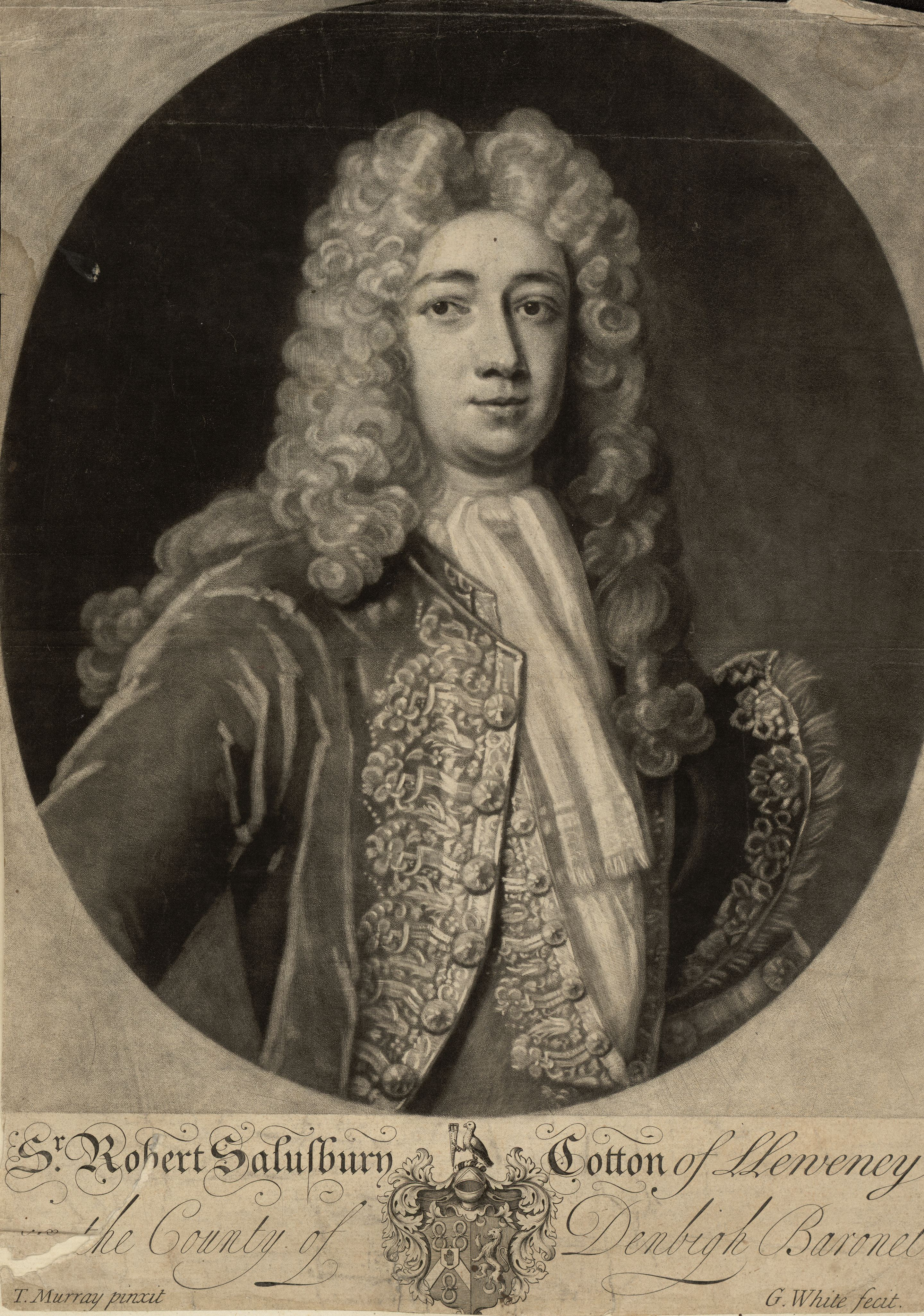 An image from a set of 8 extra-illustrated volumes of A tour in Wales by Thomas Pennant (1726-1798) that chronicle the three journeys he made through Wales between 1773 and 1776. These volumes are unique because they were compiled for Pennant's own library at Downing. This edition was produced in 1781. The volumes include a number of original drawings by Moses Griffiths, Ingleby and other well known artists of the period. Thomas Pennant (1726-1798)